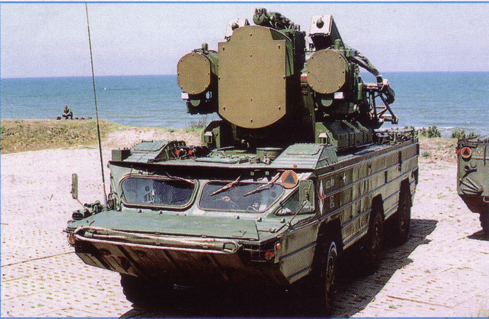 9K33 Osa